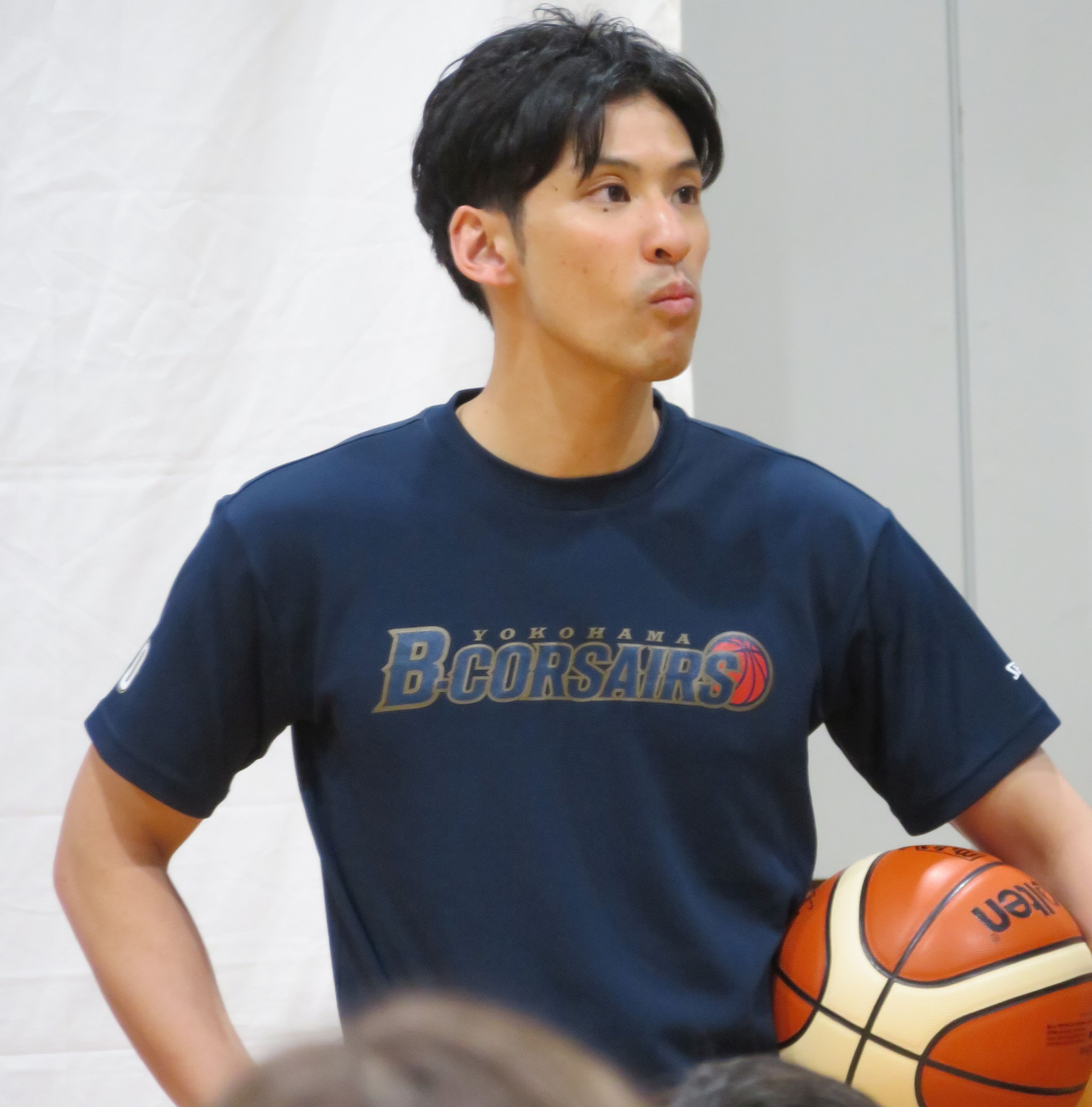 Yokohama B-Corsairs Fan Event 2019-5-19